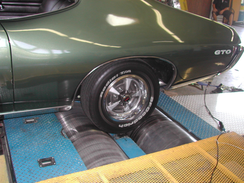 The '68 on the chassis dyno. It's the first time I've ever done this. It was pretty cool, but the numbers provided an ego check. The cable coming from the exhaust pipe is an air/fuel meter.